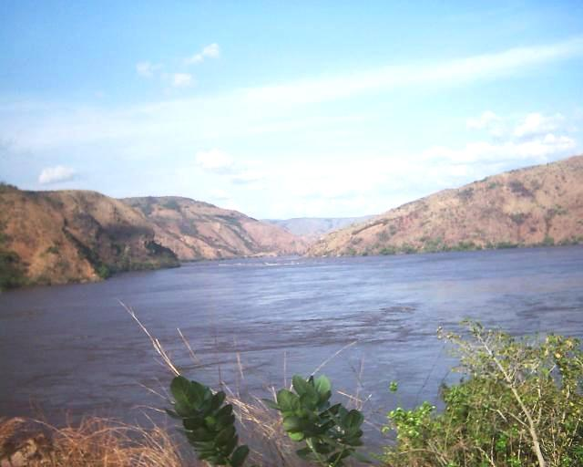 Congo (fleuve) river near Matadi